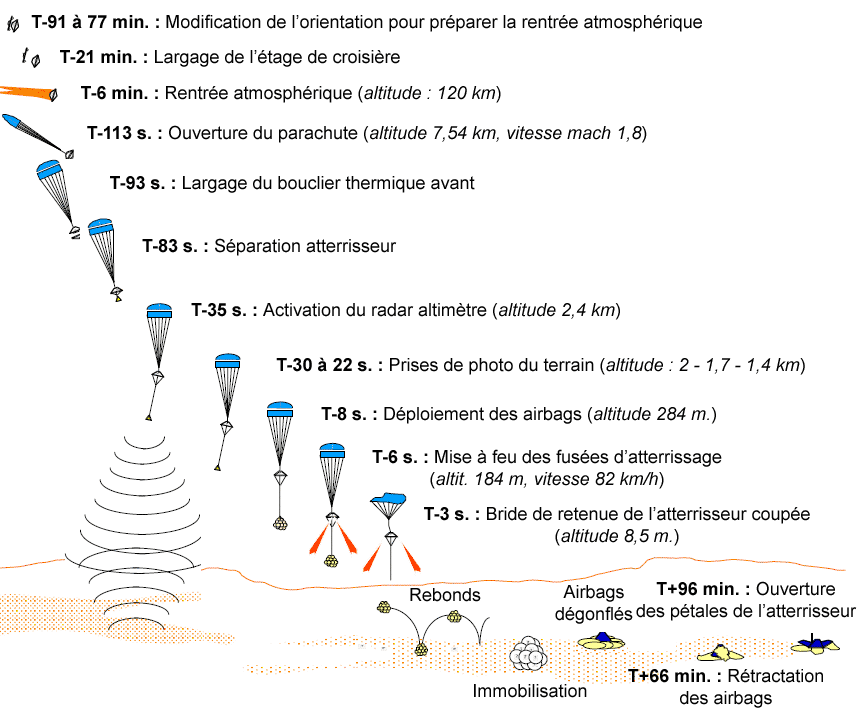 Spirit Entry Descent Landing (french)